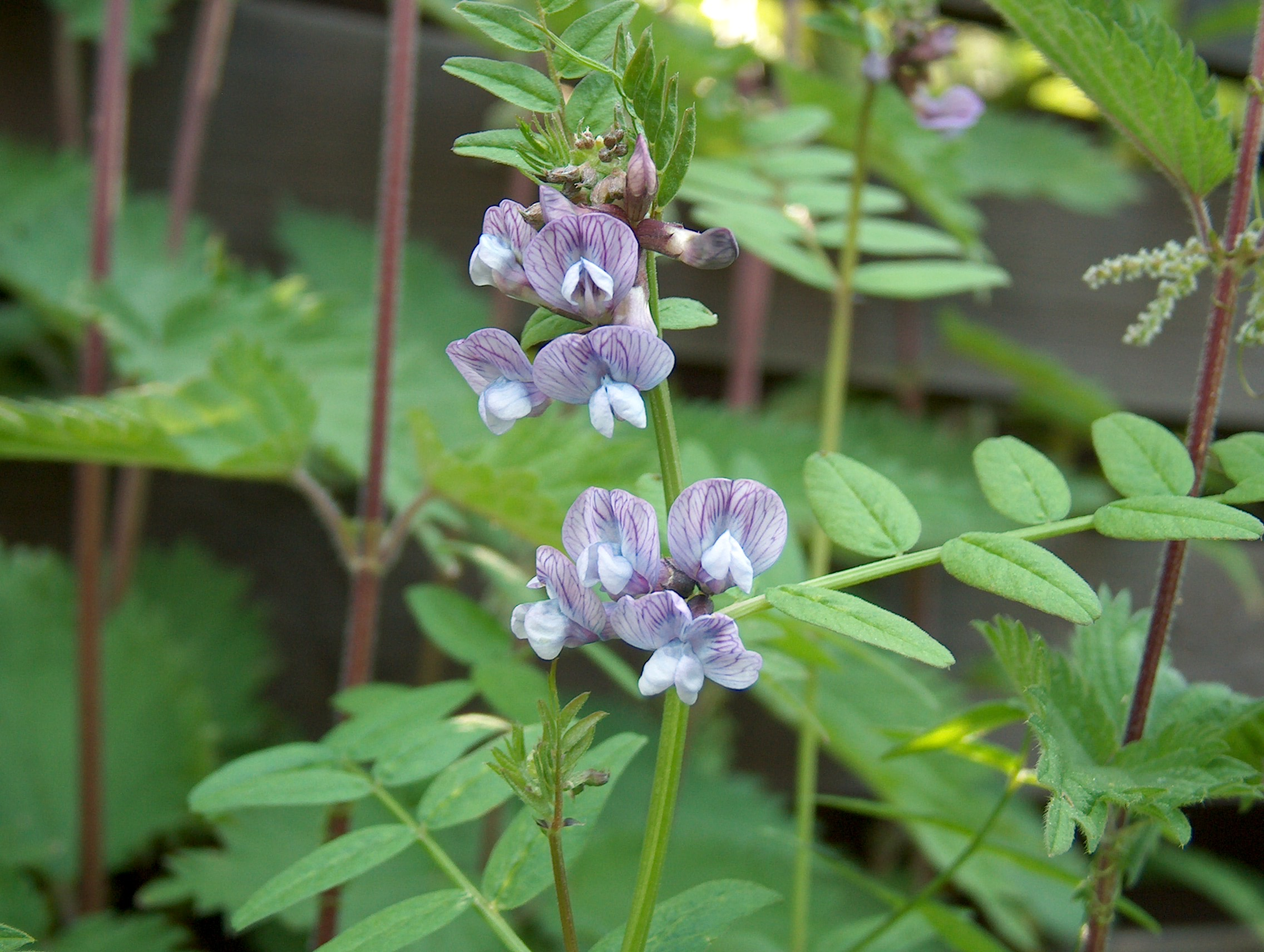 Vicia sepium, Bush Vetch, - Kerava, Finland